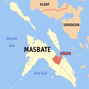 Map of Masbate showing the location of Uson